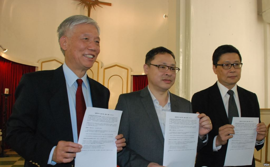 Occupy Central Press Con on 27 March 2013